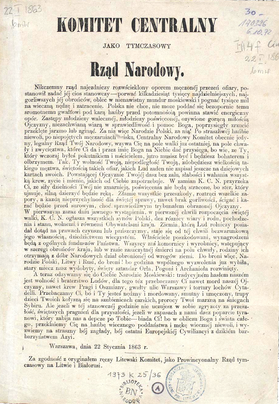 Proclamation of the January Uprising 1863